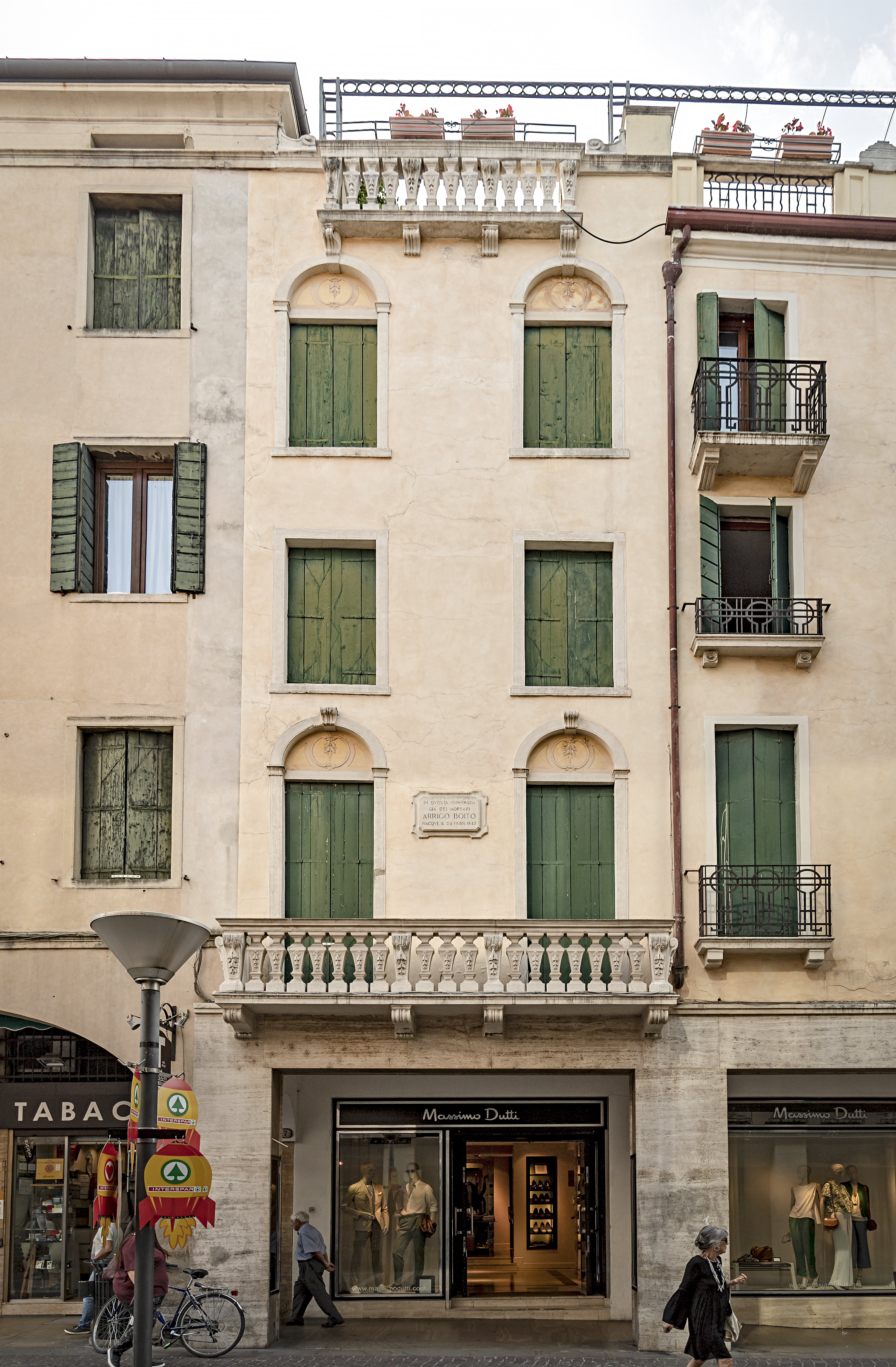 Birthplace of Arrigo Boito Via 17 Cavour in Padua